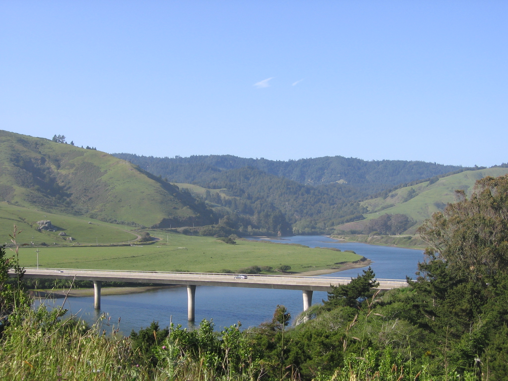 A bridge over Russian River, near its estuary